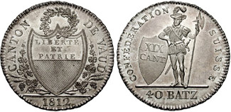 Switzerland, Canton Vaud. AR 40 Batzen (29.43 g). Dated 1812. Mintage of 2,485 pieces. Civic coat-of-arms Soldier with pike and shield. Davenport 362; KM 17. Toned UNC, proof-like surfaces